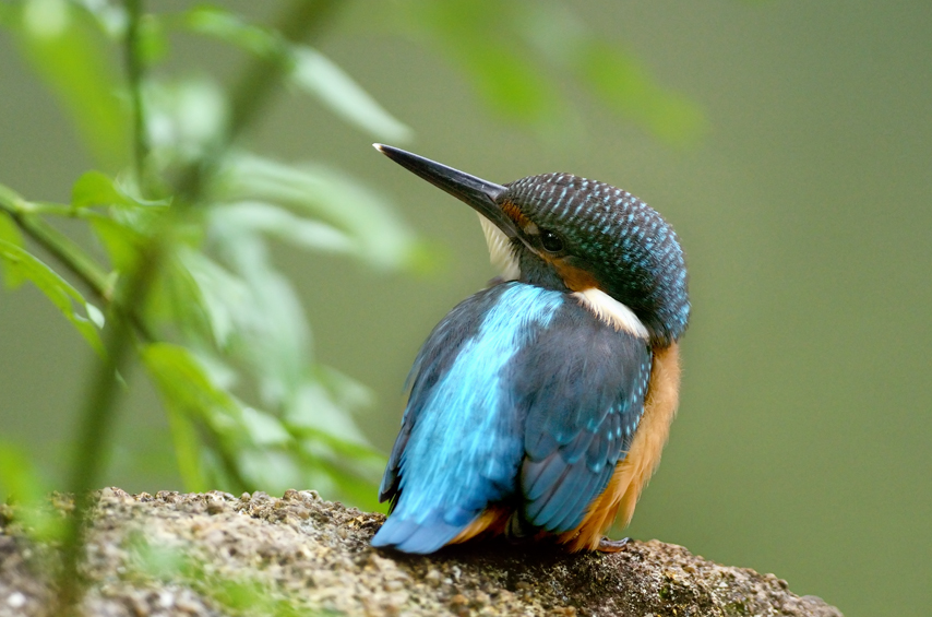 Common Kingfisher (also known as Eurasian Kingfisher).